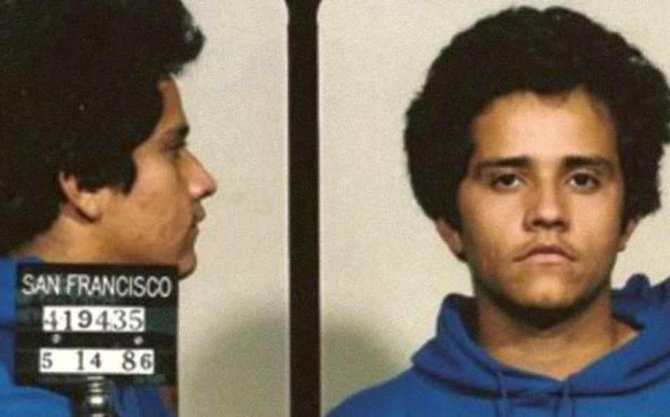 Mug shot of Nemesio Osergura Cervantes "El Mencho"